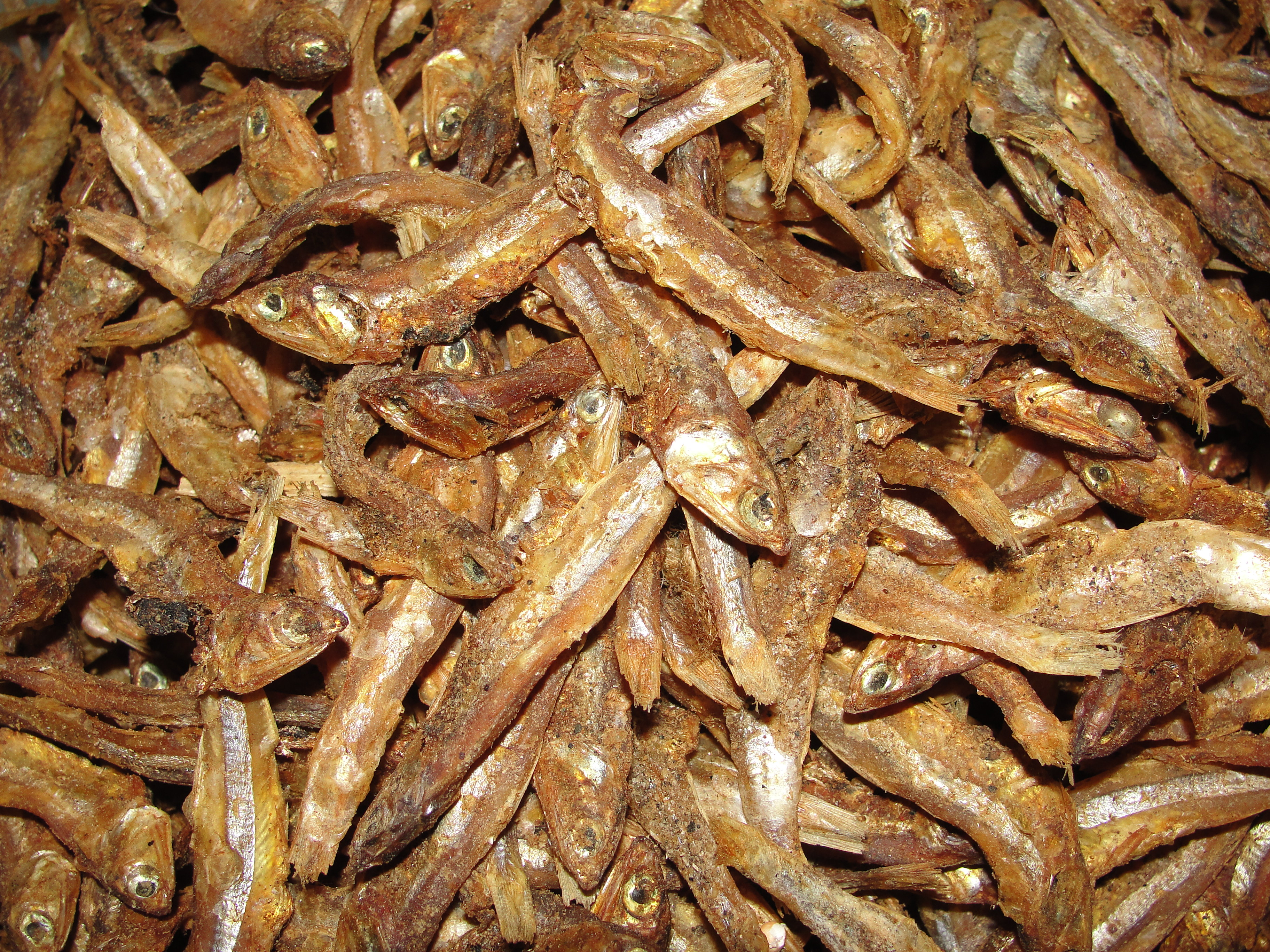 This picture illustrating a small kind of Salted and dried fish ( the common name in Tamil is Neththili Karuvaadu)